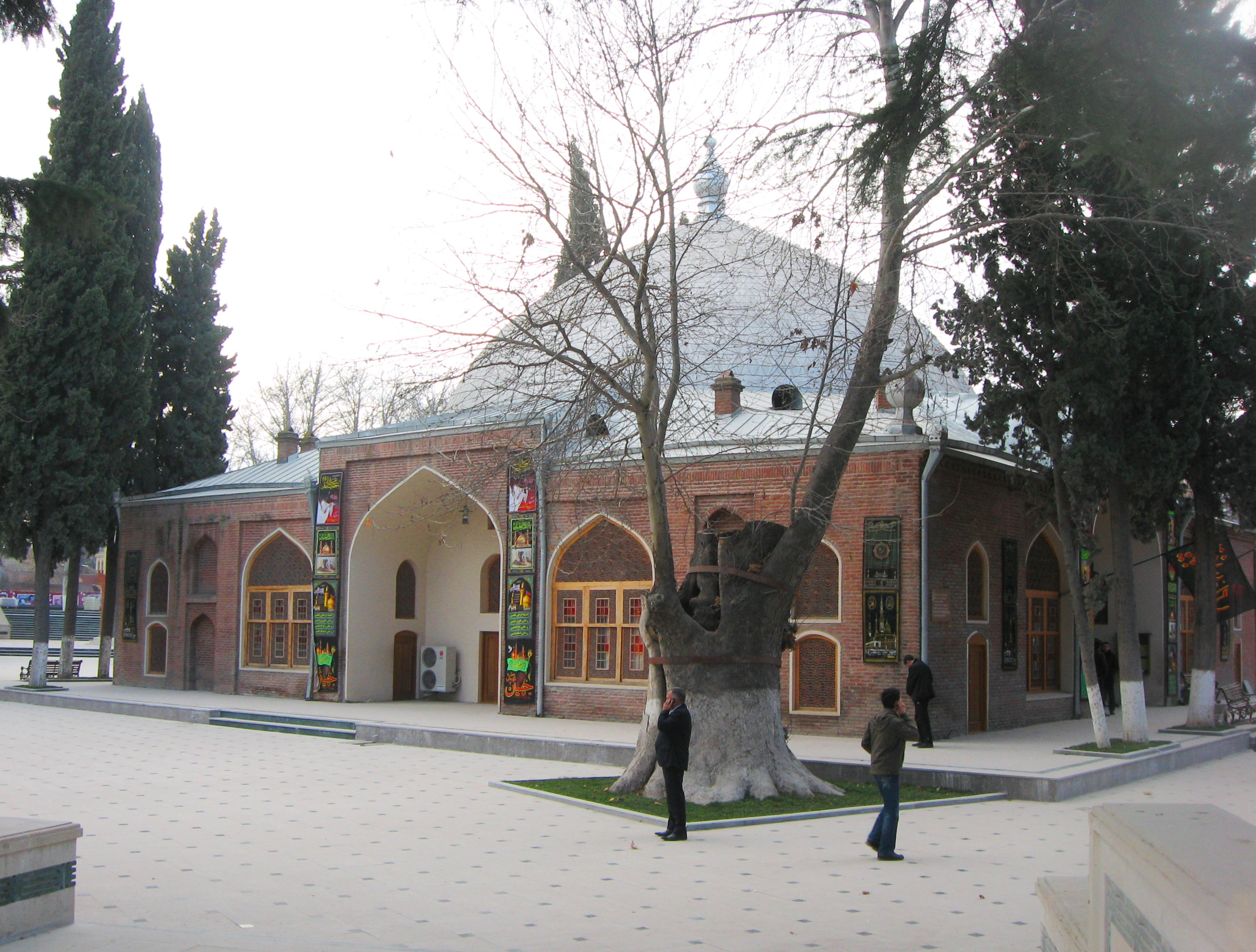 Juma mosque (also called Shah Abbas Mosque) in Ganja, Azerbaijan. Built in 1606.